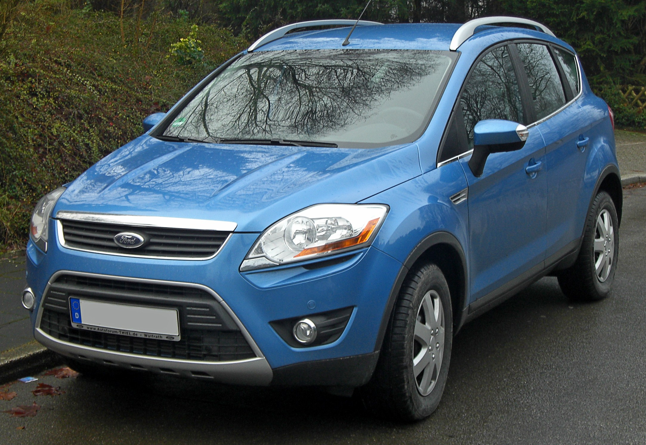 Description: Ford Kuga Source: Matthias Other Version(s)